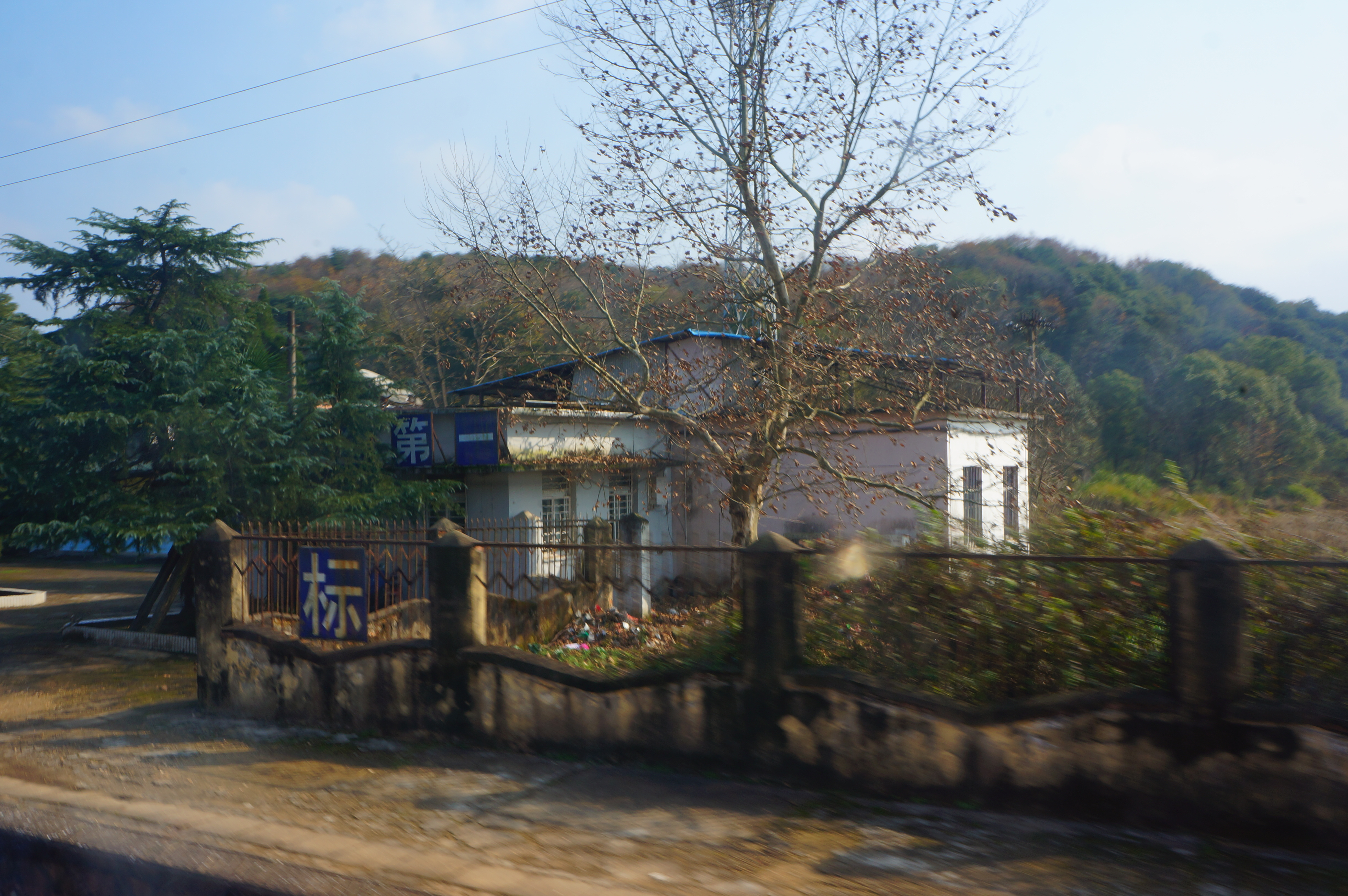 201612 Hanmeiling Station